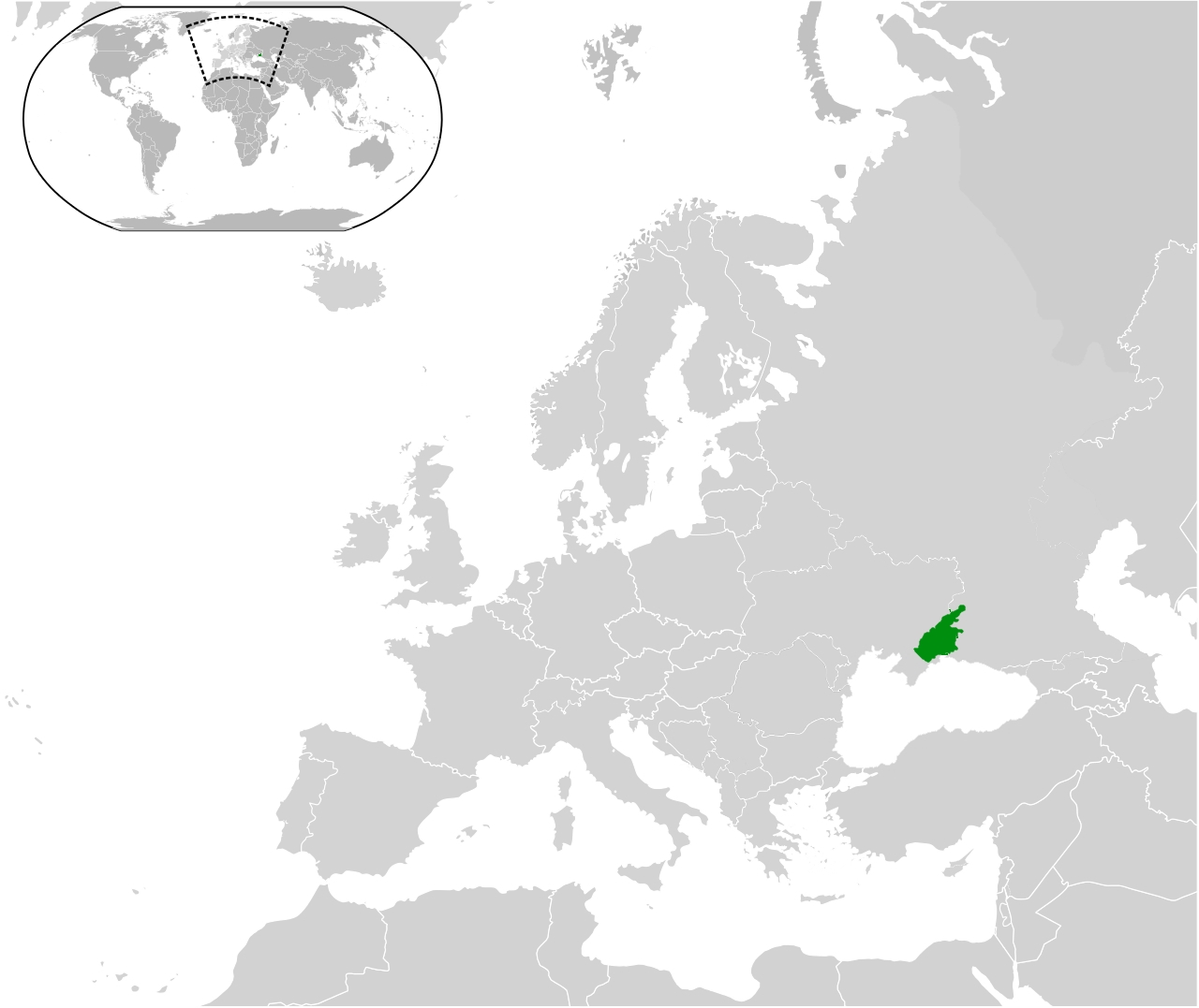 Azov sea on the map